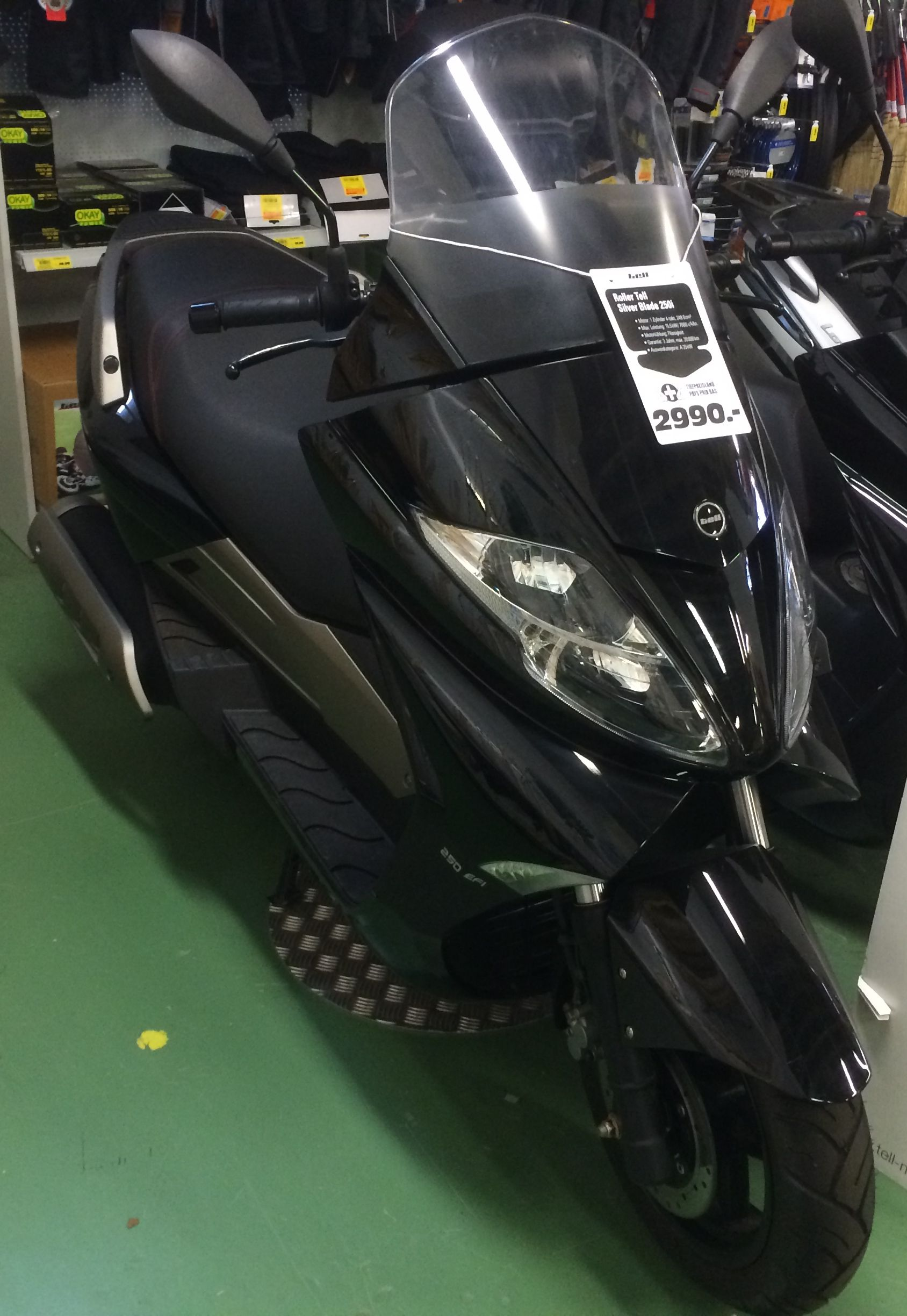 Tell Silver Blade 250i scooter sold by the Landi store chain in Switzerland.